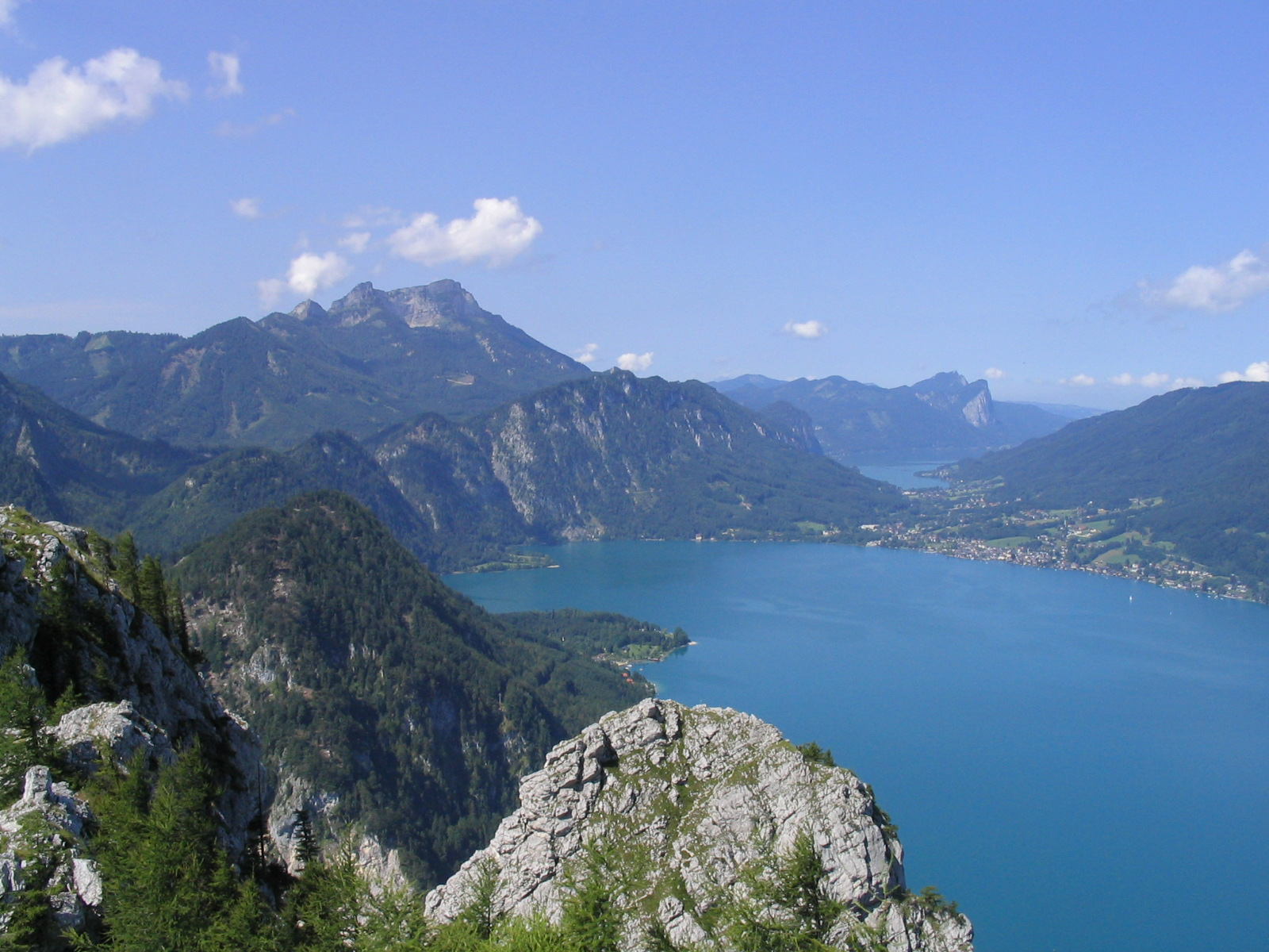 Schafberg, Drachenwand, Mondsee and Attersee, Upper Austria. View from Grosser Schoberstein.